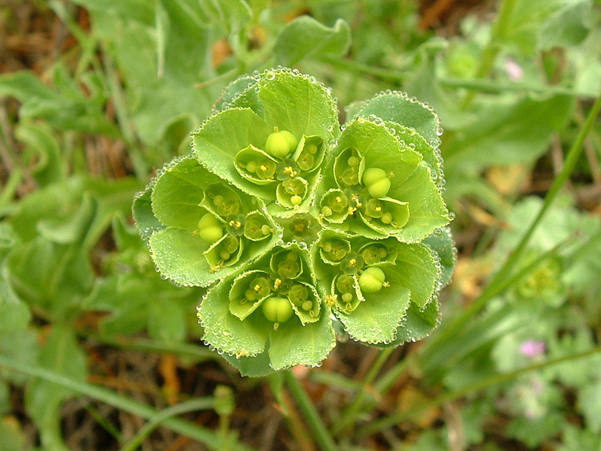 Euphorbia helioscopia (Euphorbiaceae). Rivas Vaciamadrid, Madrid. Spain